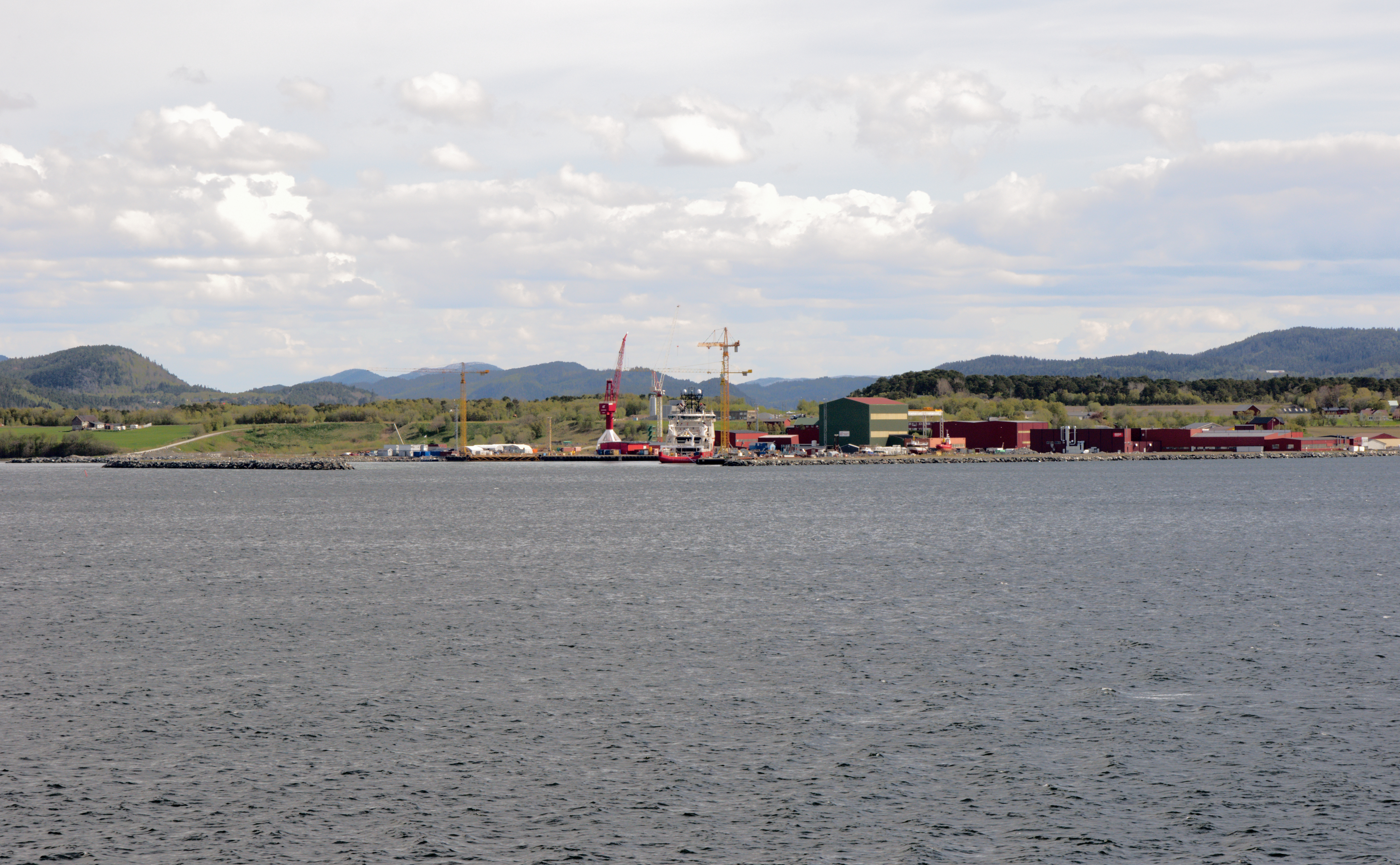 Fosen Yards on Trondheimfjorden, Norway. Picture taken from board MS Nordlys